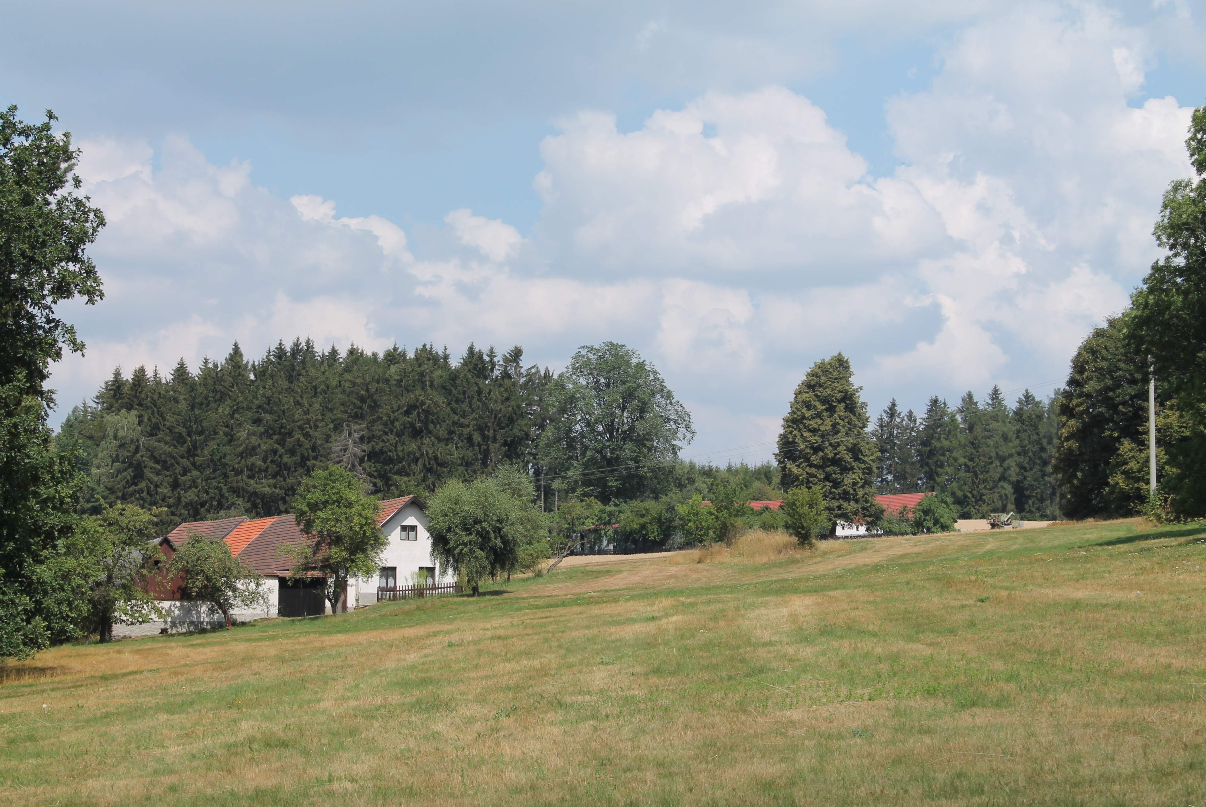 Trsov, Nový Rychnov, Pelhřimov District, Czech Republic